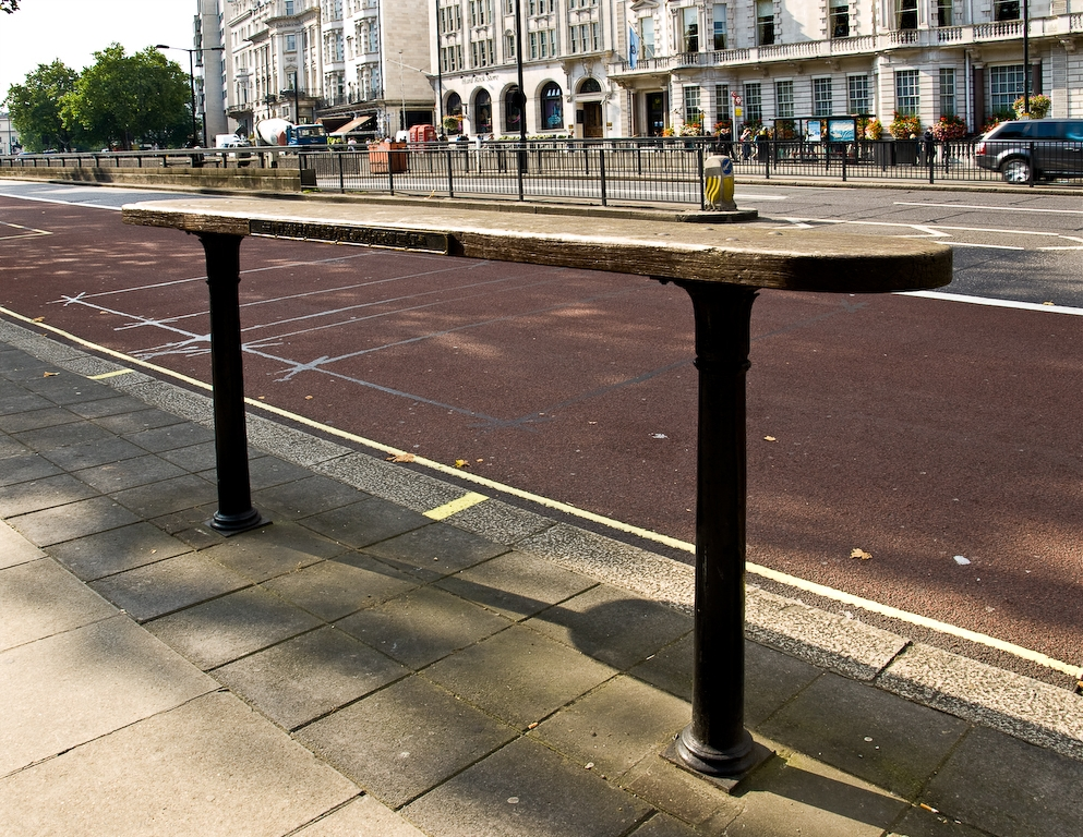 UK Expedition Sept, 2008: A Porter's Rest, circa 1861 - where porters carrying burdens on their shoulders, etc, could rest without putting down their loads...